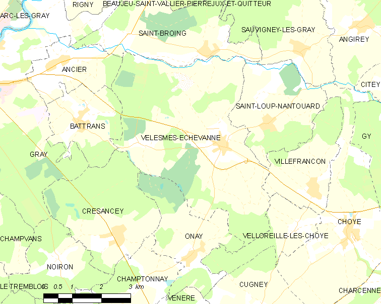 Map of French municipality